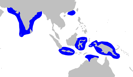 Distribution map for Carcharhinus hemiodon